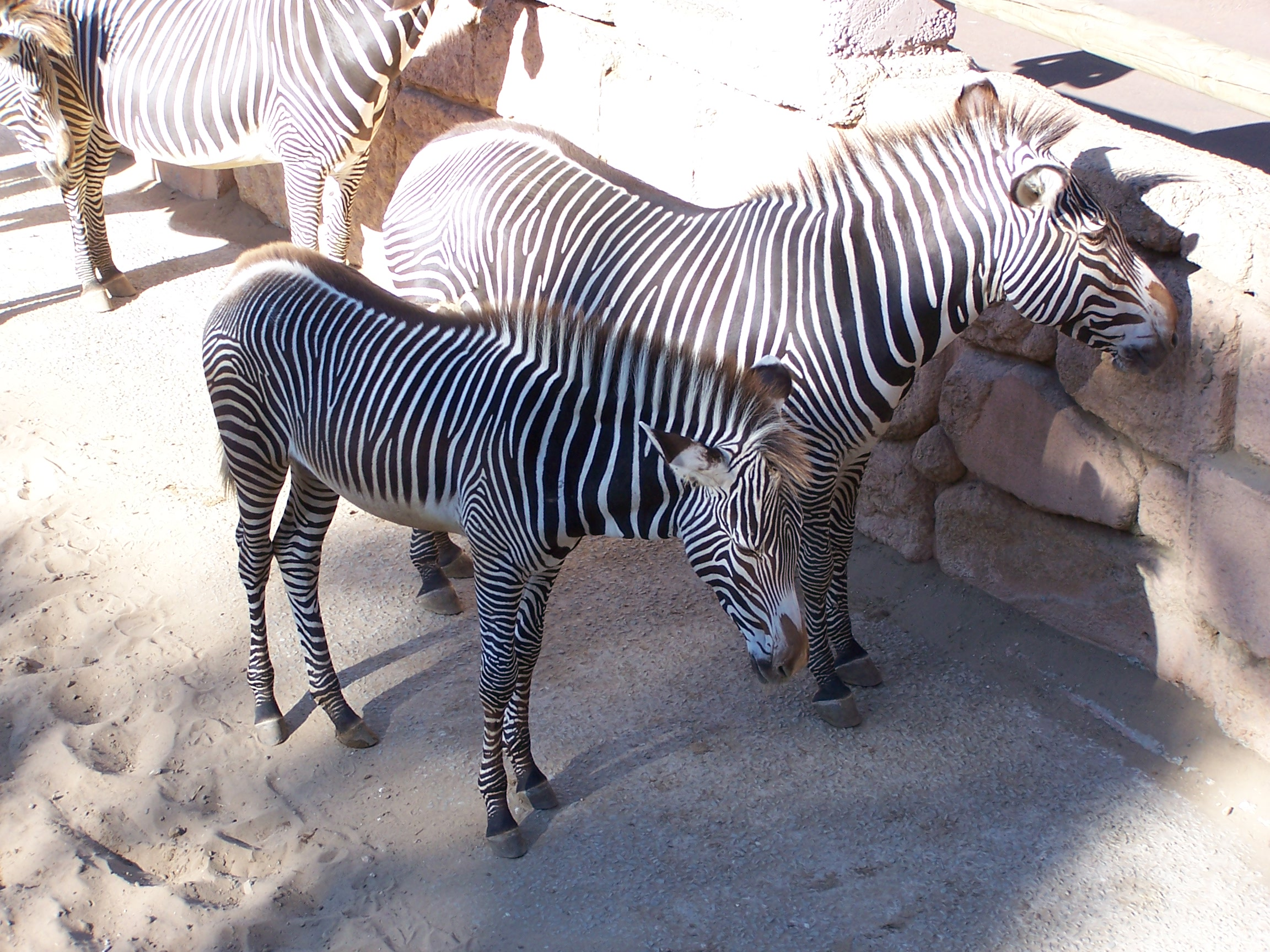 Grevy's Zebra, Equus grevyi.